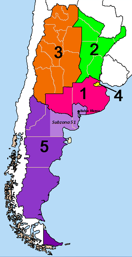 Argentina. Militar Subzone 51. During the Dirty War, Argentina was divided in 5 militar zones. Each zone had subzones, and each subzones had areas. The militars who where in charge of each zone and subzone had plain powers within them.